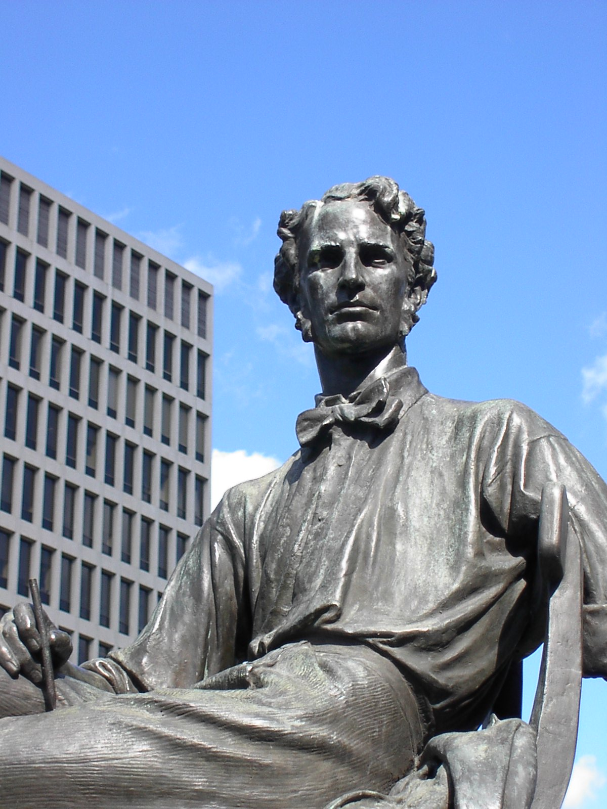 Statue of Adam Lindsay Gordon in Melbourne